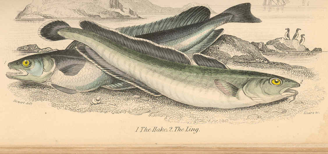 Hake (1); Ling (2) Subject: Hake, Lingcod Tag: Fish